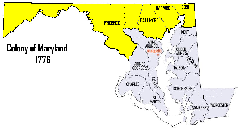 Northern counties the colony of Maryland 1776 3rd Maryland Regiment's Recruitment Area